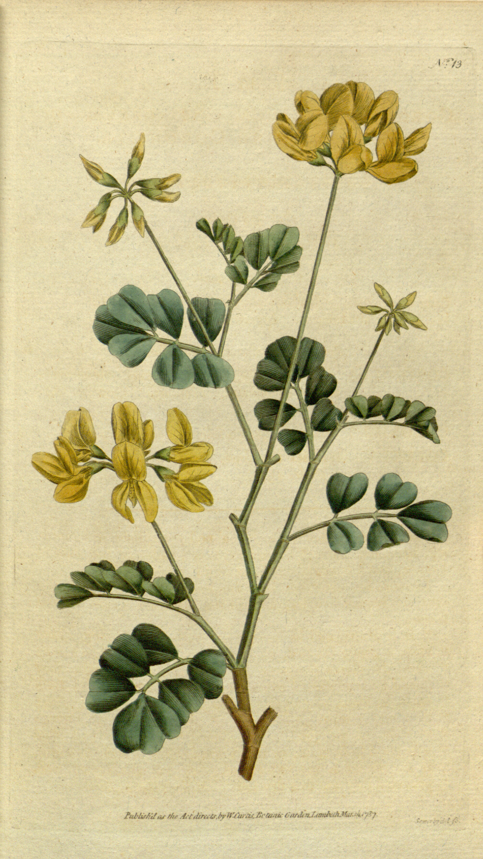 This is Plate 13 from The Botanical Magazine, Volume 1. Coronilla glauca